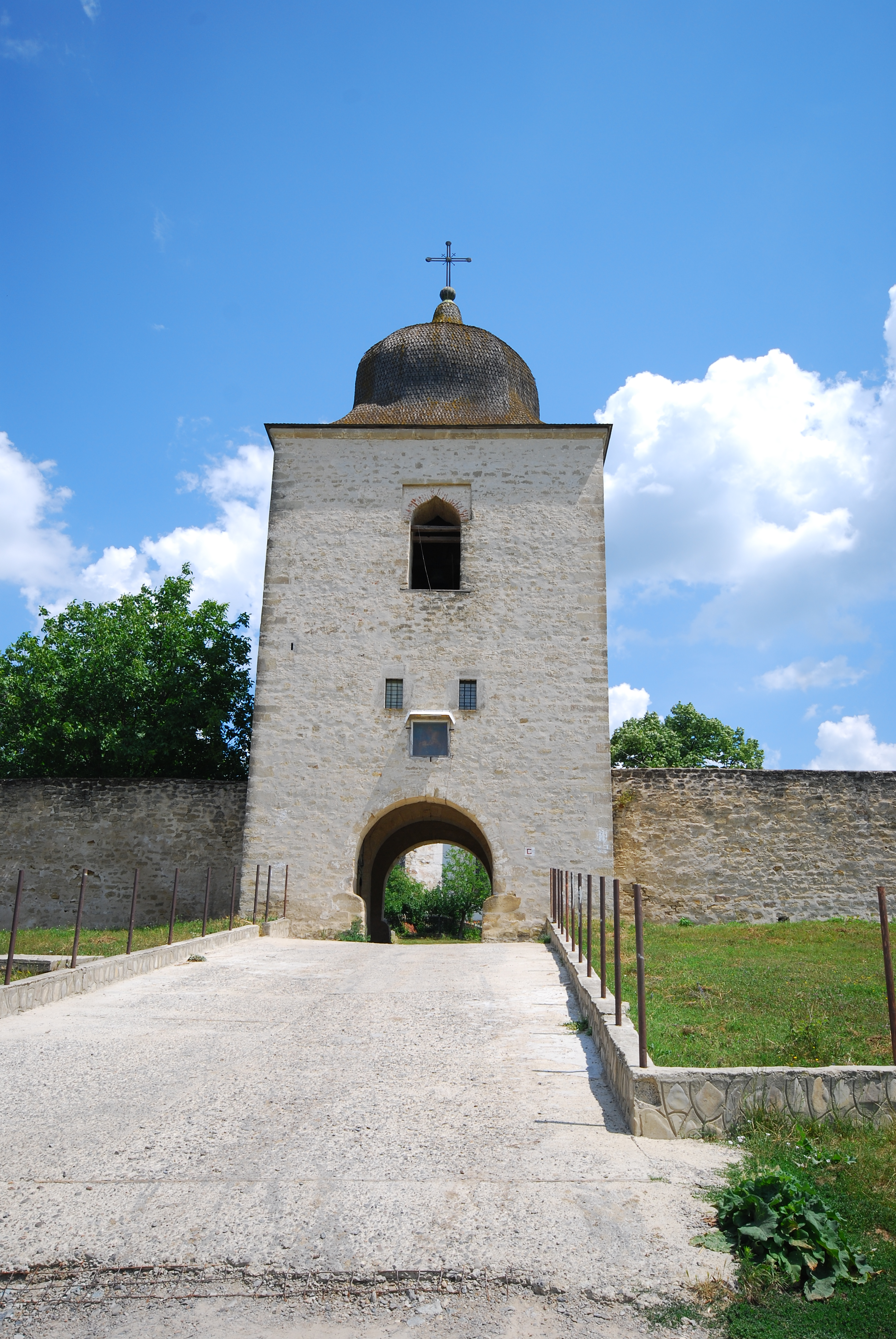 Gate tower 04